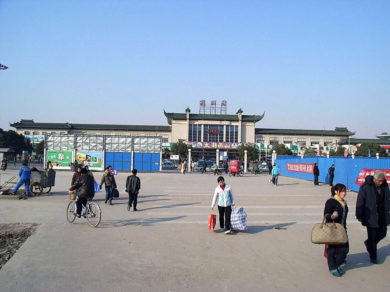 蘇州駅 Suzhou Station 苏州站